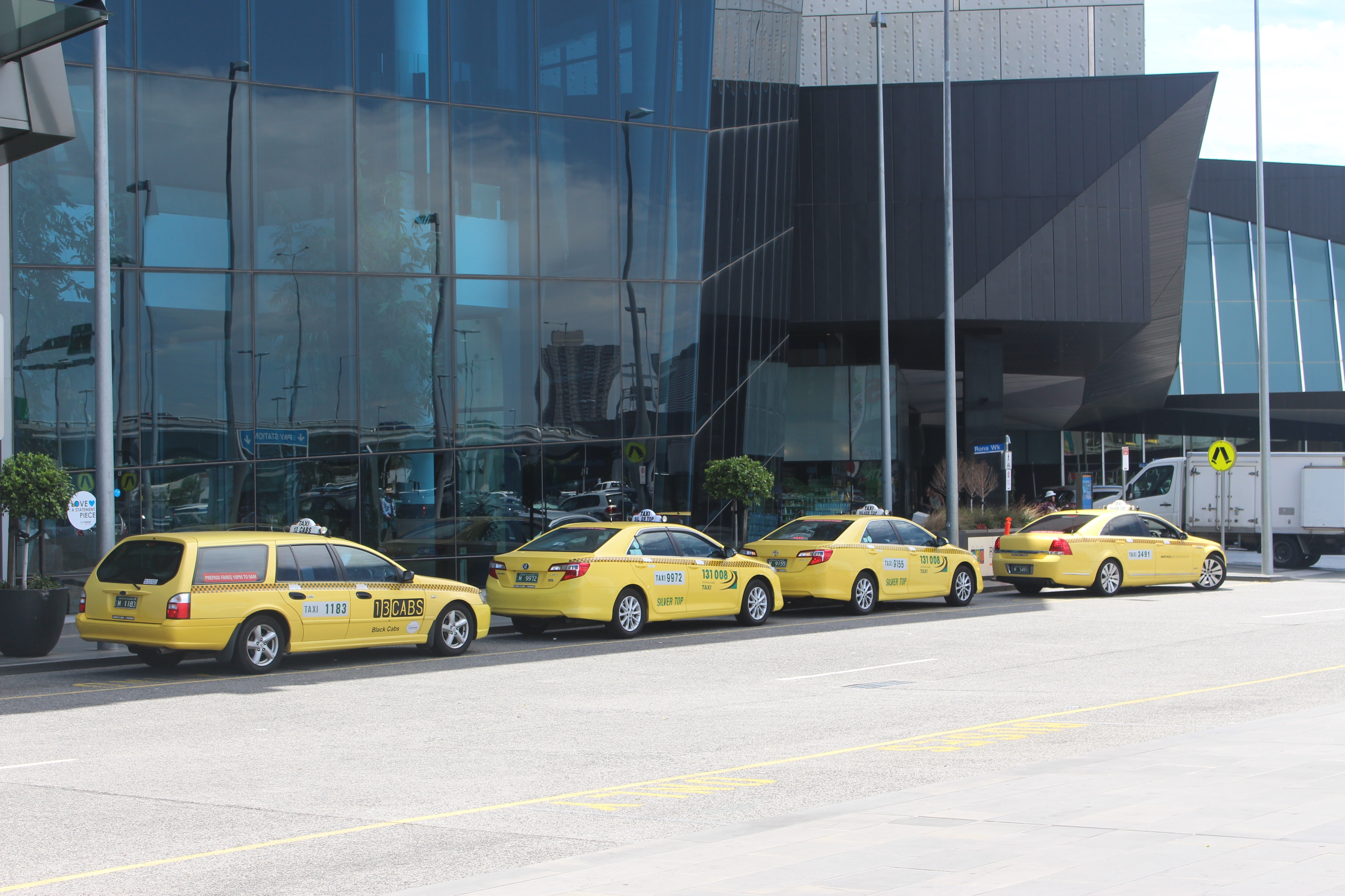 Taxicab Rank near Rona Walk in Melbourne, near the Melbourne Convention and Exhibition Centre